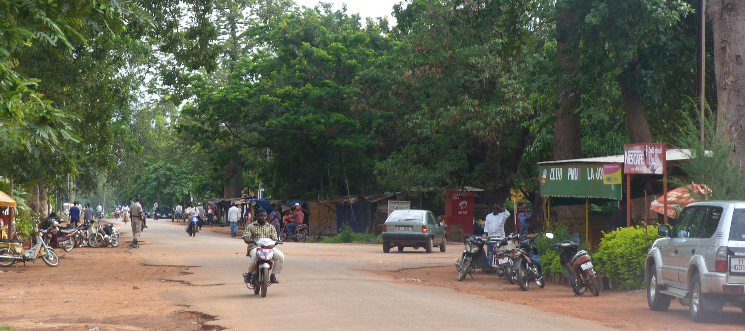 This is an image with the theme "Africa on the Move or Transport" from: Burkina Faso